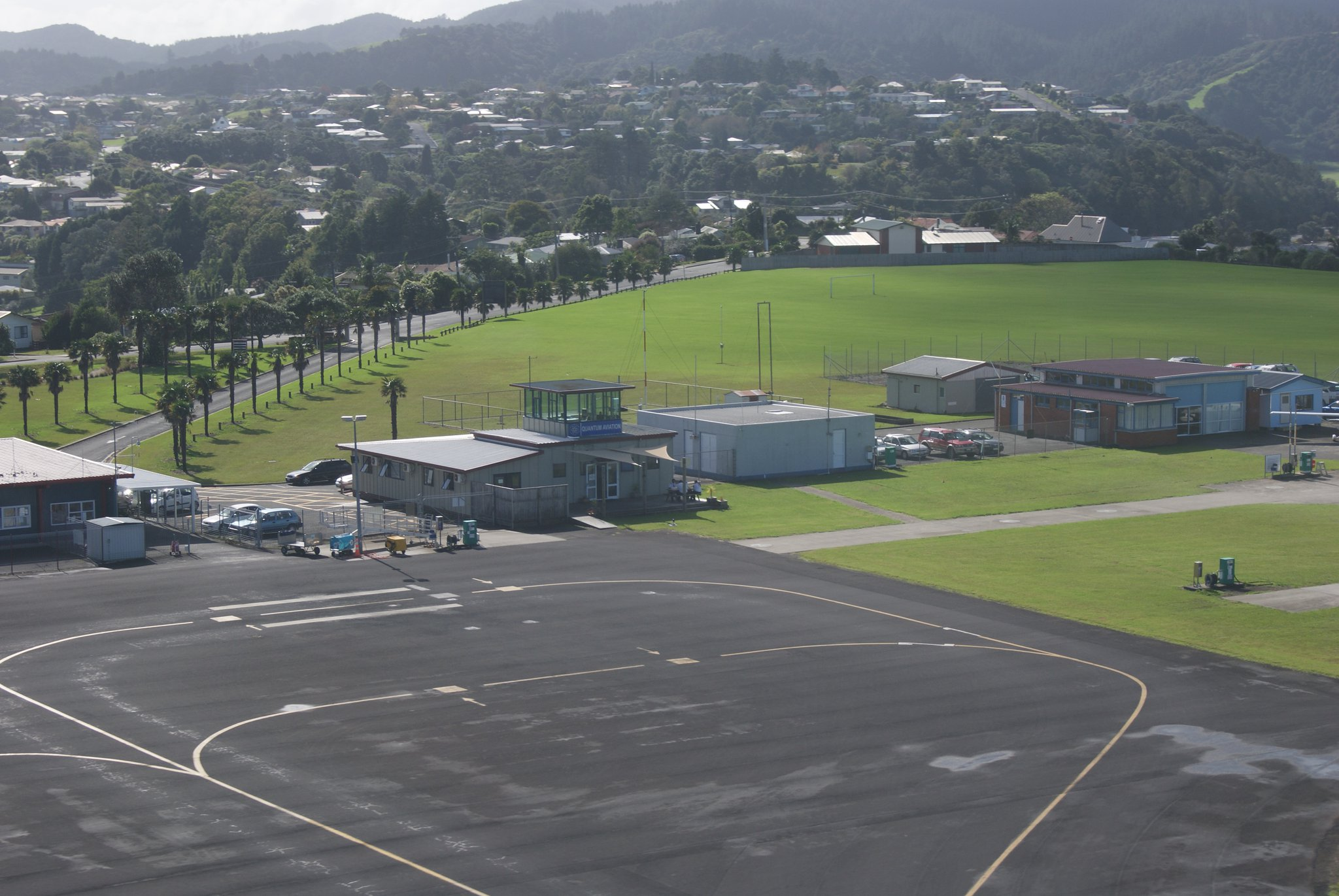 Whangarei Apron. Credit Quantam Aviation